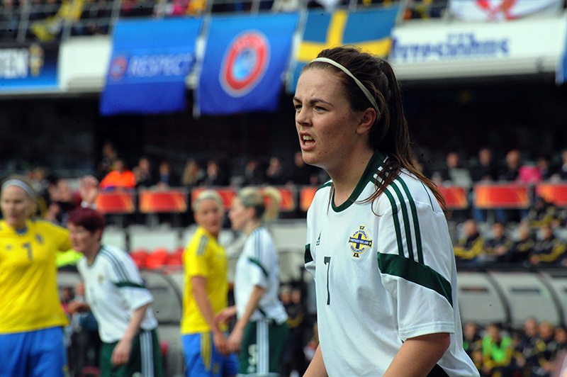 Highly-rated Everton and Ireland hitkid Simone Magill